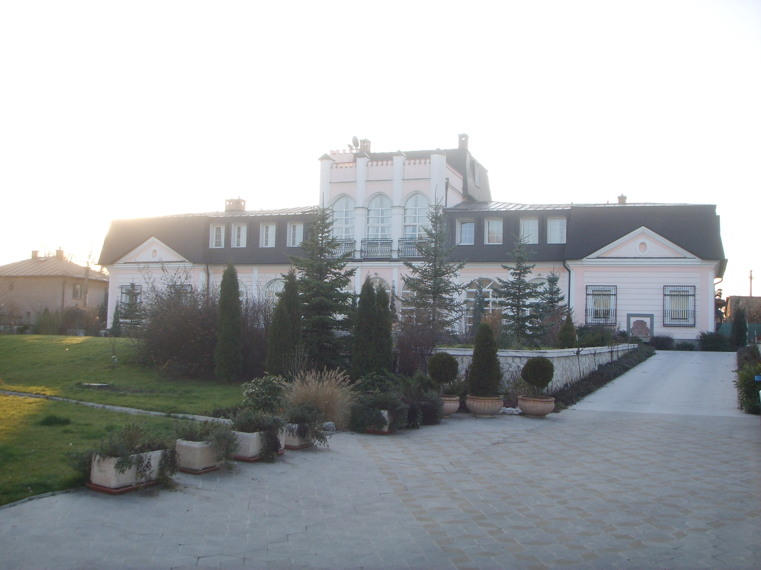 Berzeviczi Manor House, Košice - Barca